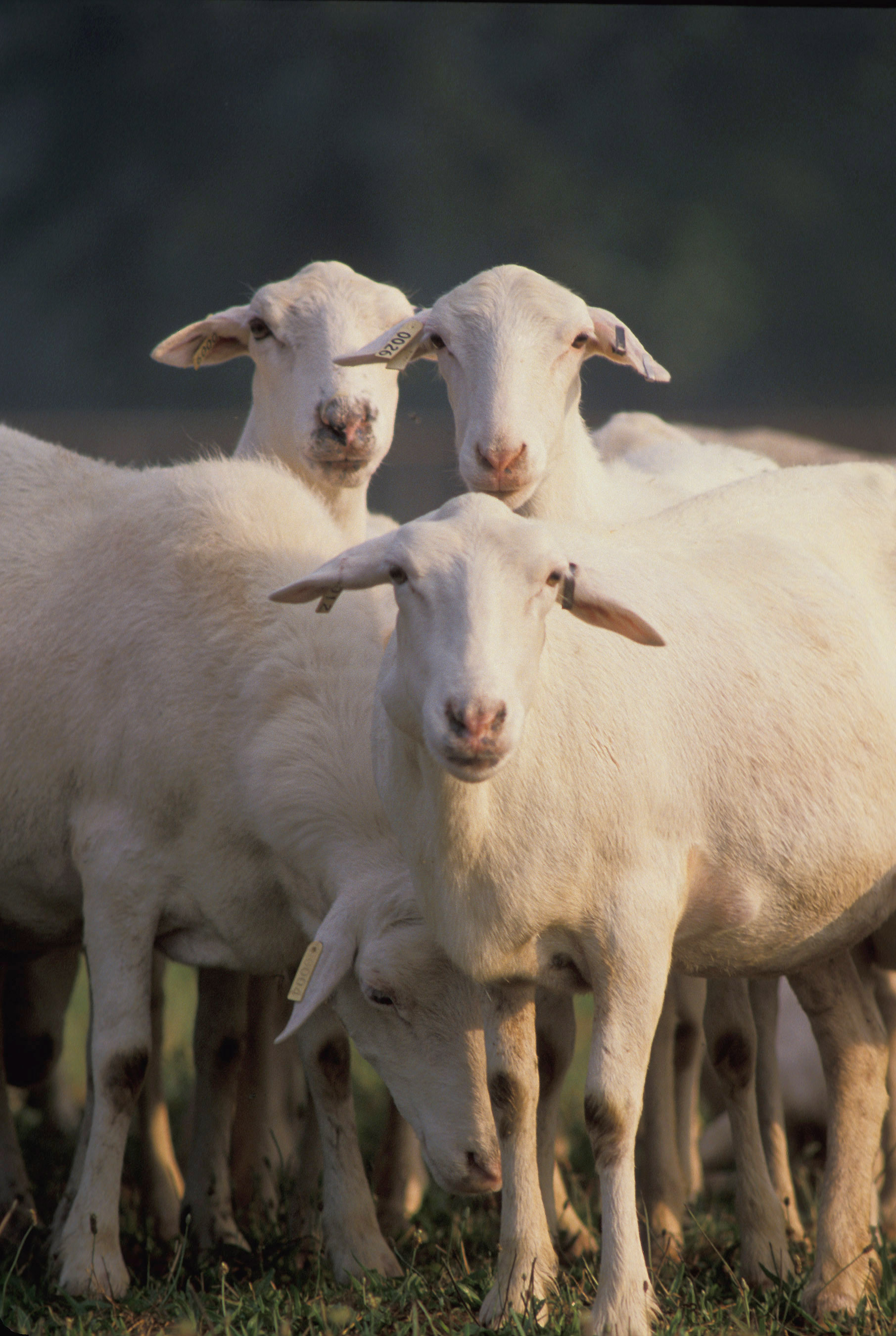 Croix sheep from Image Number K3719-1 St. Croix sheep have shown resistance to parasites and tolerance to hot weather. Photo by ARS